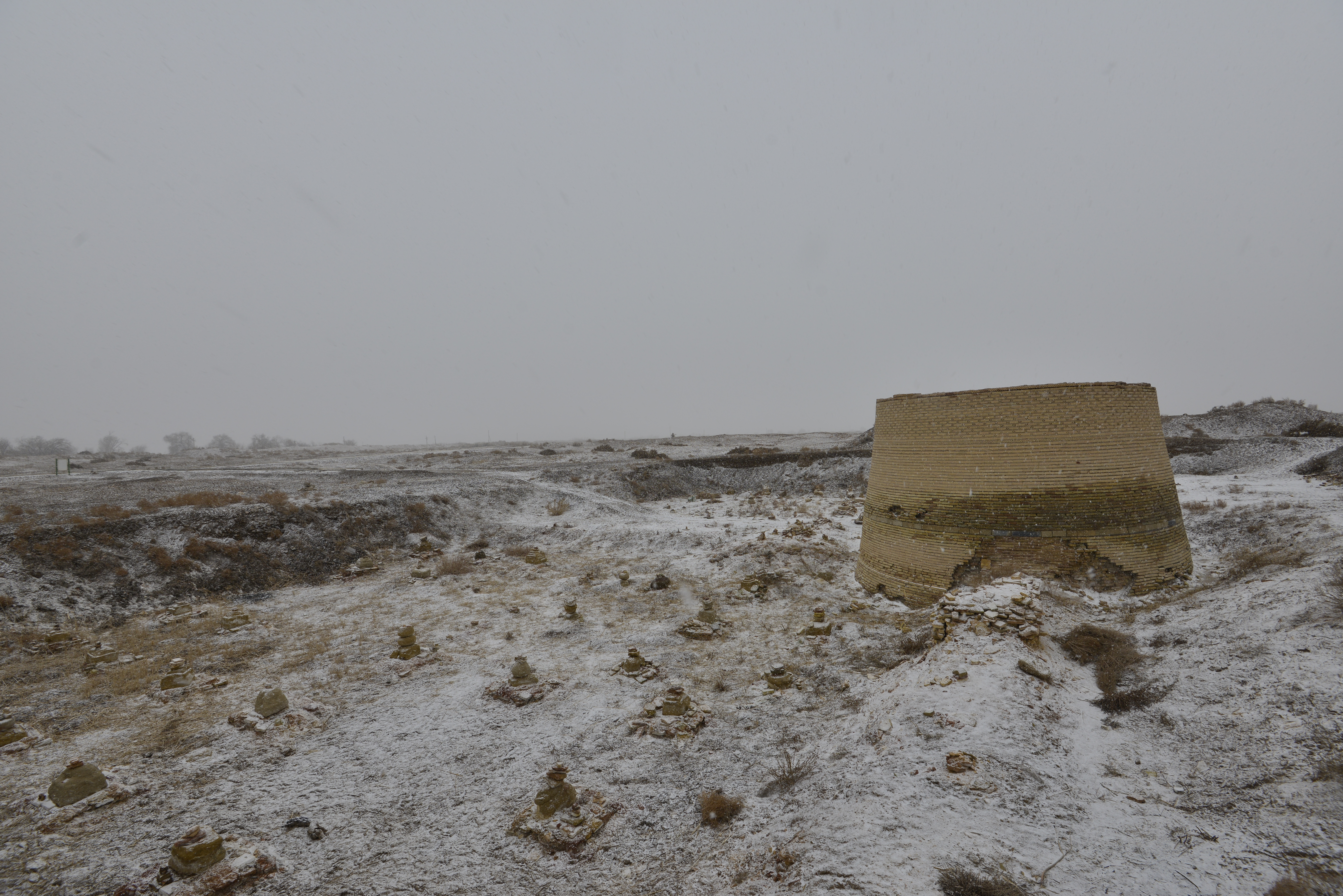 Cairn at the Mamun II Minarett